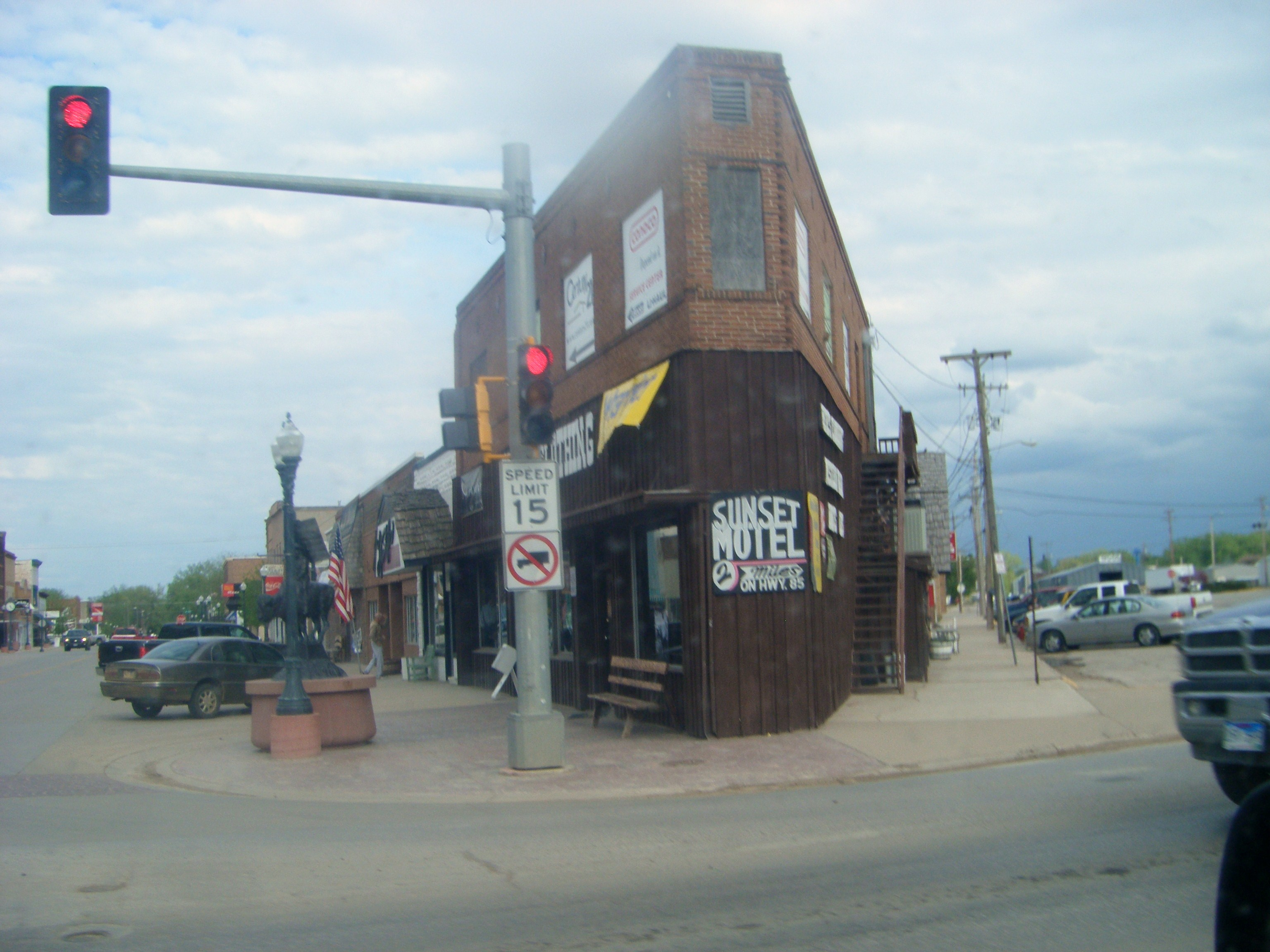 Building at the intersection of Fifth Avenue and State Street in downtown Belle Fourche, South Dakota, United States. These buildings are part of the Belle Fourche Commercial Historic District, a historic district that is listed on the National Register of Historic Places.